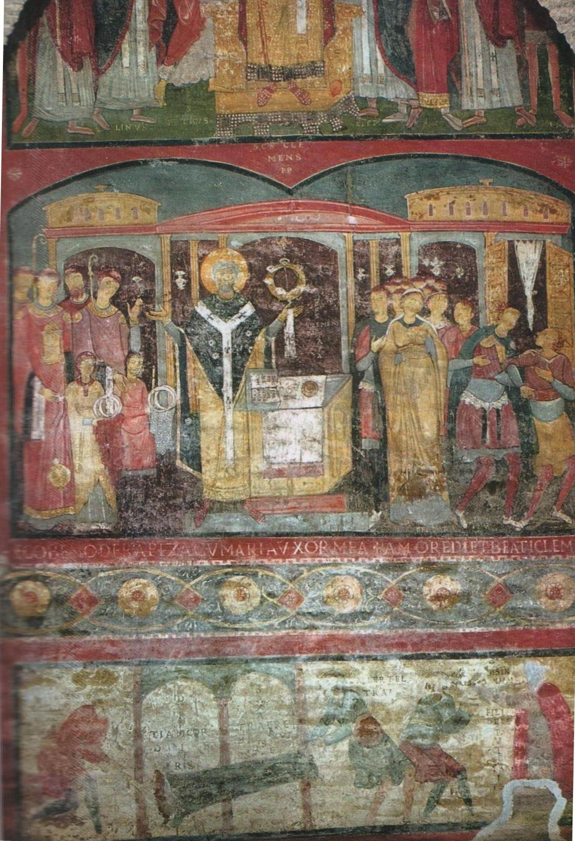 St Clement celebrates Mass